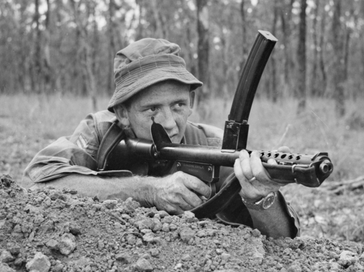 STAND-TO with an "enemy" attack imminent and Corporal Les Lindsay, of Mareeba, via Cairns, Qld, is alert with his F1 sub-machine carbine. A member of 8 Battalion, Royal Australian regiment (8RAR), Cpl Lindsay is taking part in exercise Noisy Pitta in the Army's Shoalwater Bay training area north of Rockhampton, Qld. About 1500 troops are taking part in Noisy Pitta which is aimed at finally training 8 RAR before they depart for service in Malaysia later this year.